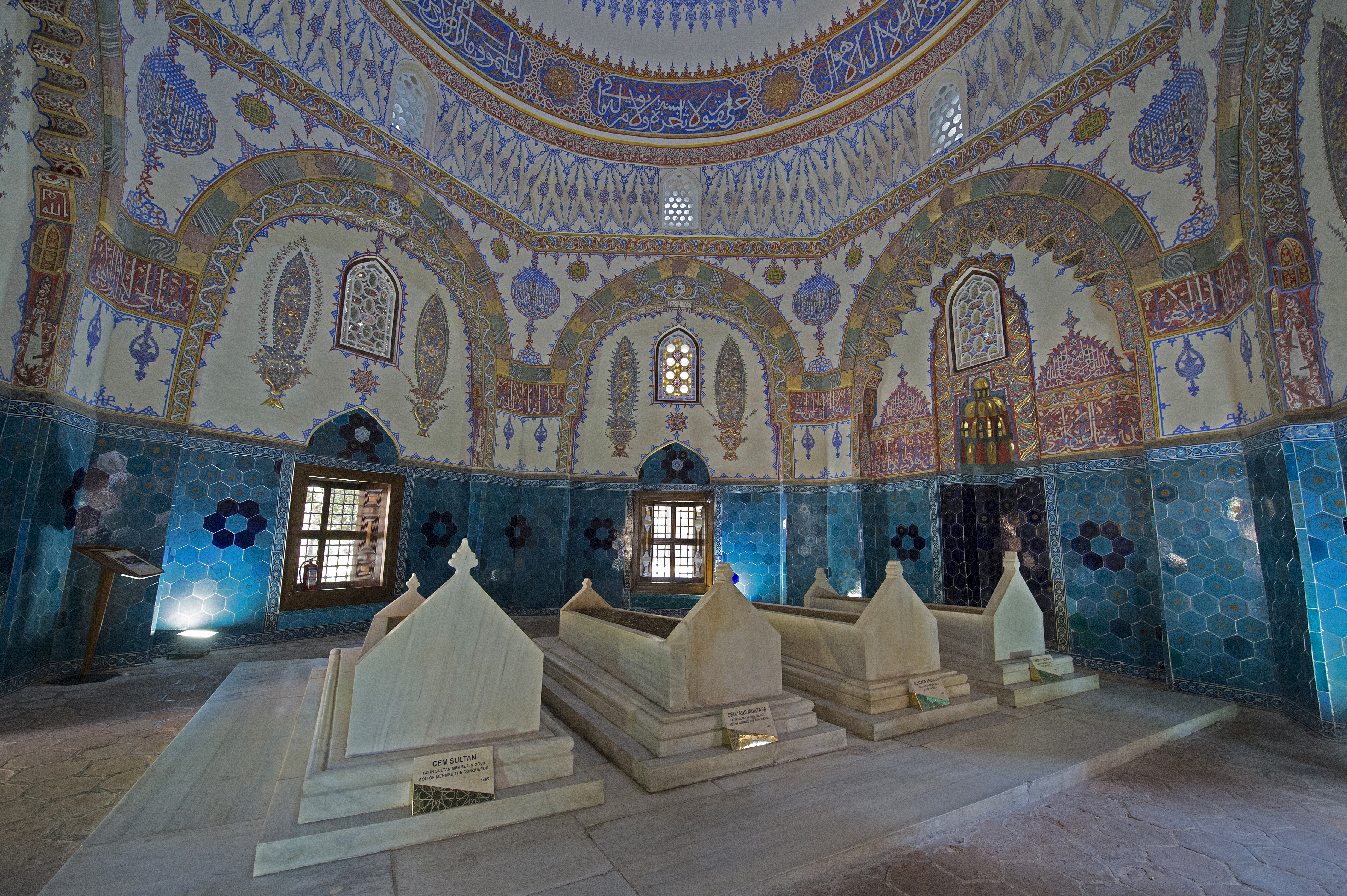 uilt for Shehzade Mustafa, son of Mehmet the Conqueror. Mustafa died in 1474, his remains after some travels were brought to Bursa, to be buried in the mausoleum of an uncle, until in 1479 this mausoleum was built for him and he was buried here. Another son of Mehmet, Cem Sultan, died in 1499, was buried in the same mausoleum, which led to it today being called Cem Sultan Mausoleum. Its decoration is part with Iznik Tiles (turquoise and dark blue hexagons with in their centre and at the edges zoomorphic motifs), part with hand-drawn ornaments which for a long time were covered with 19th century baroque ornaments, but were uncovered during a 2013 restoration.